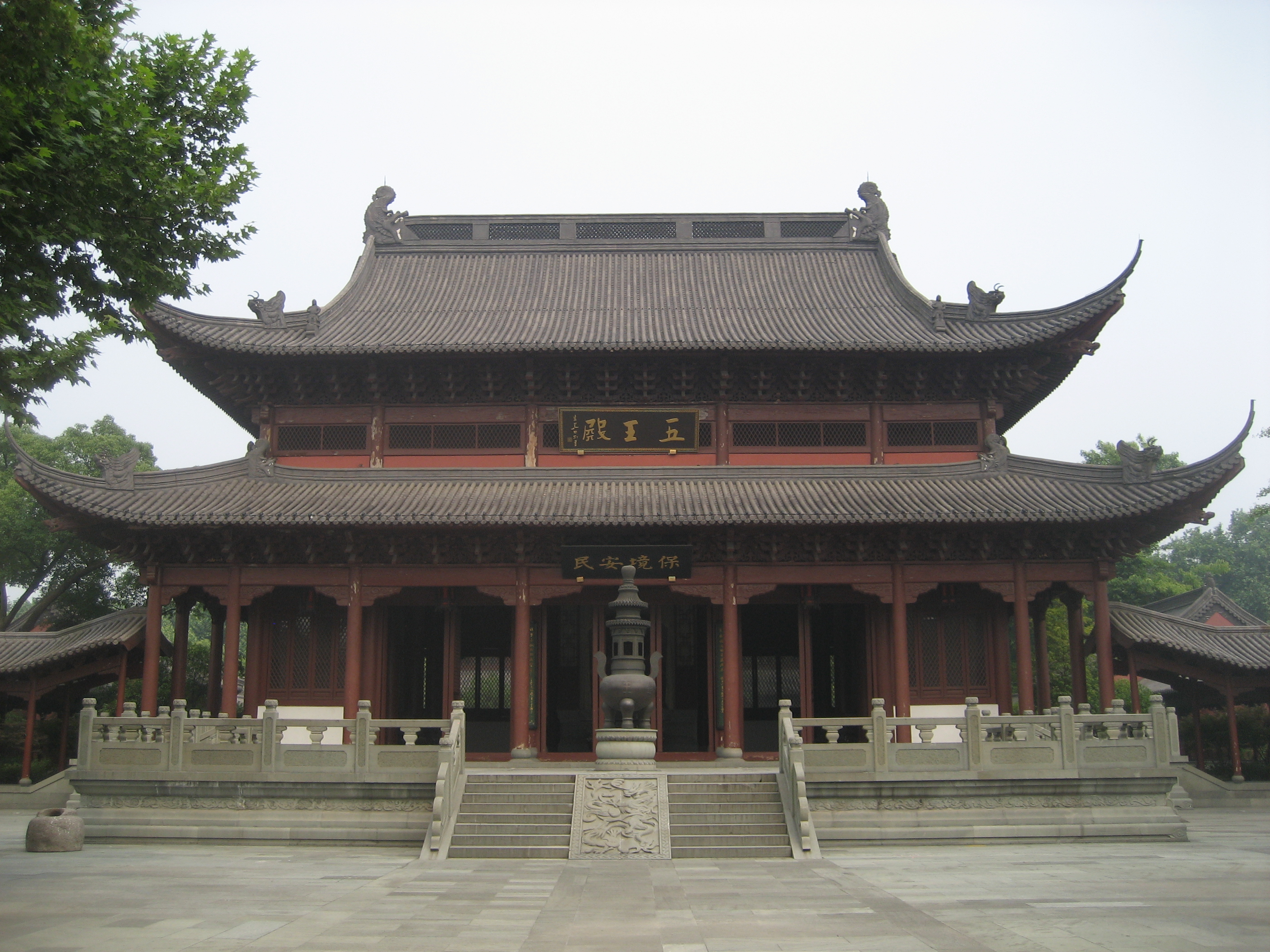 The central building in Qian King Temple.